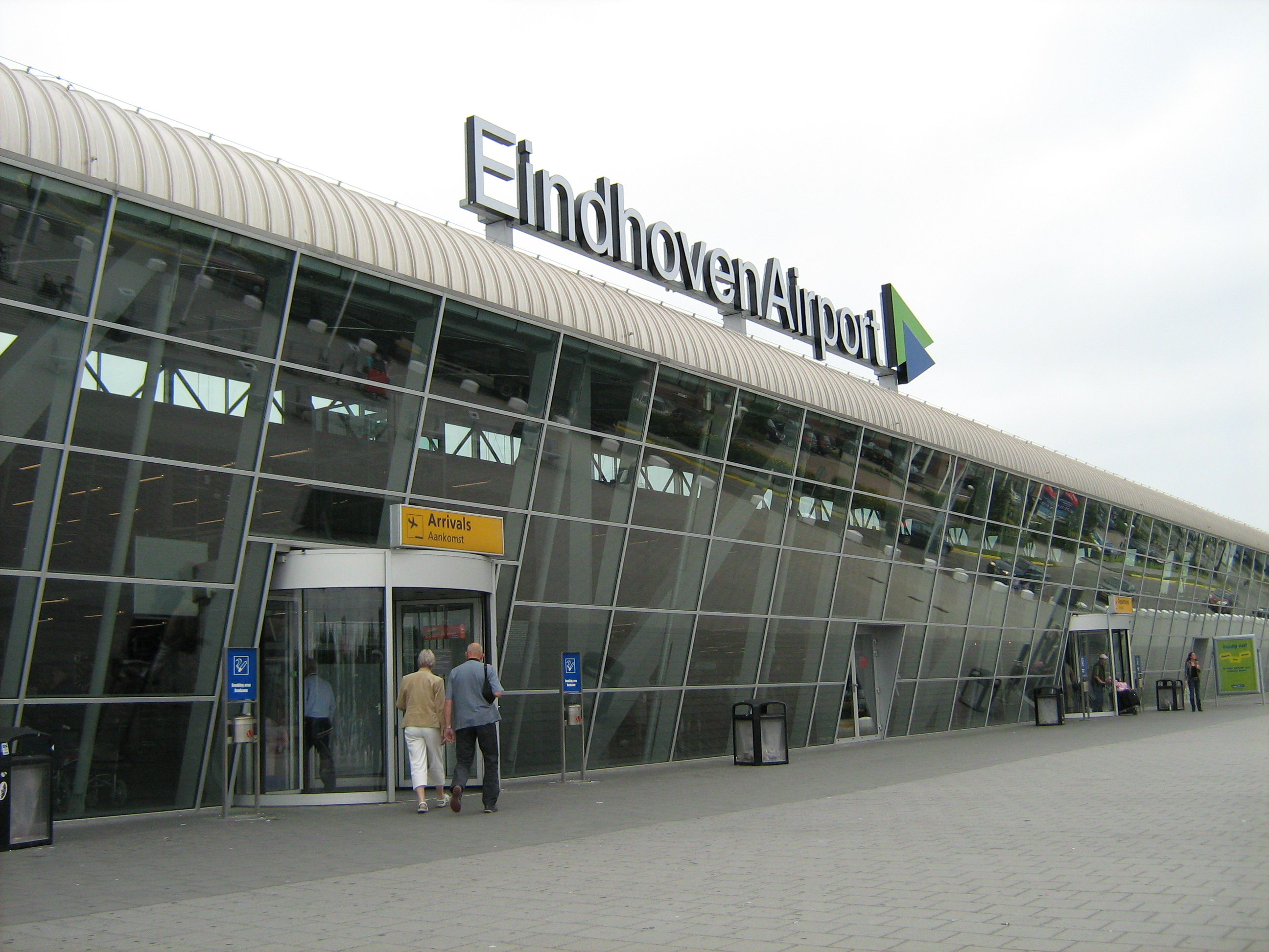 Eindhoven Airport